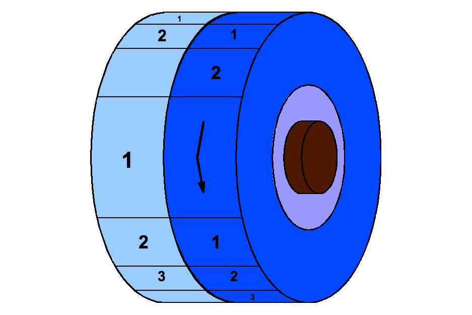 Visualization of the phasing in Steve Reich's Clapping Music as two discs on a common spool. Sharing an identical pattern, this pattern may be contrasted with itself at all positions, eventually coming back to a match, by spinning one of the discs.